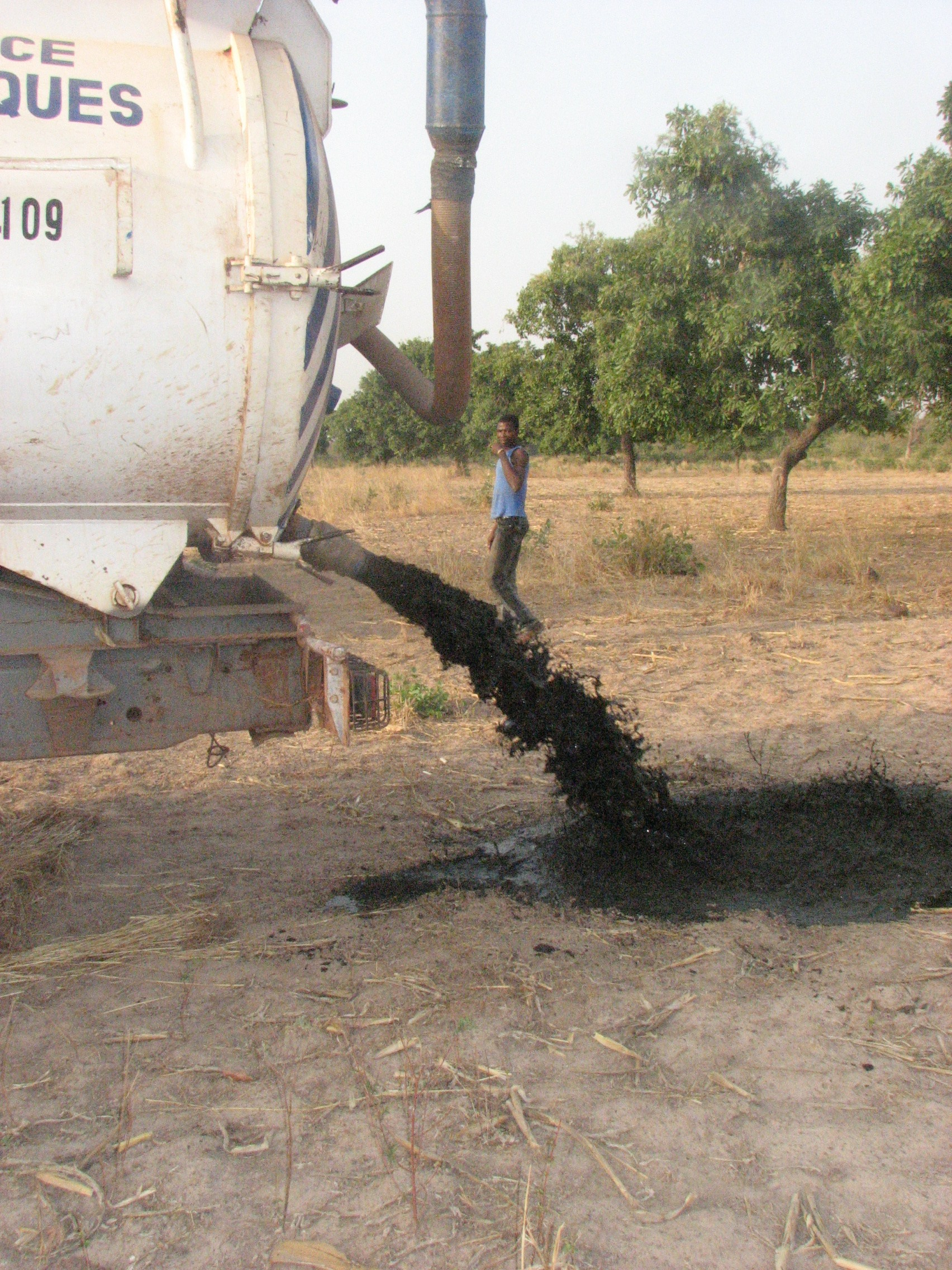 Burkina Faso - discharge of faecal sludge